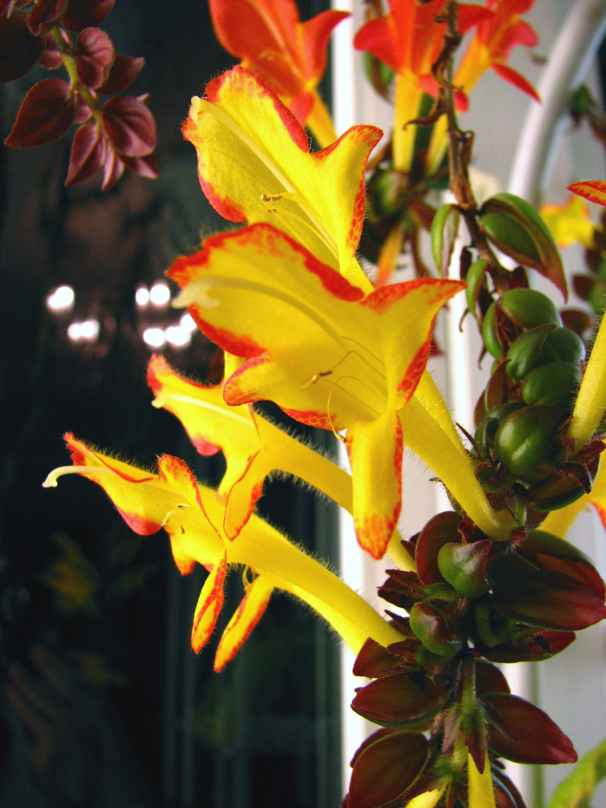 Columnea × banksii 'Carnival' (pot plant).